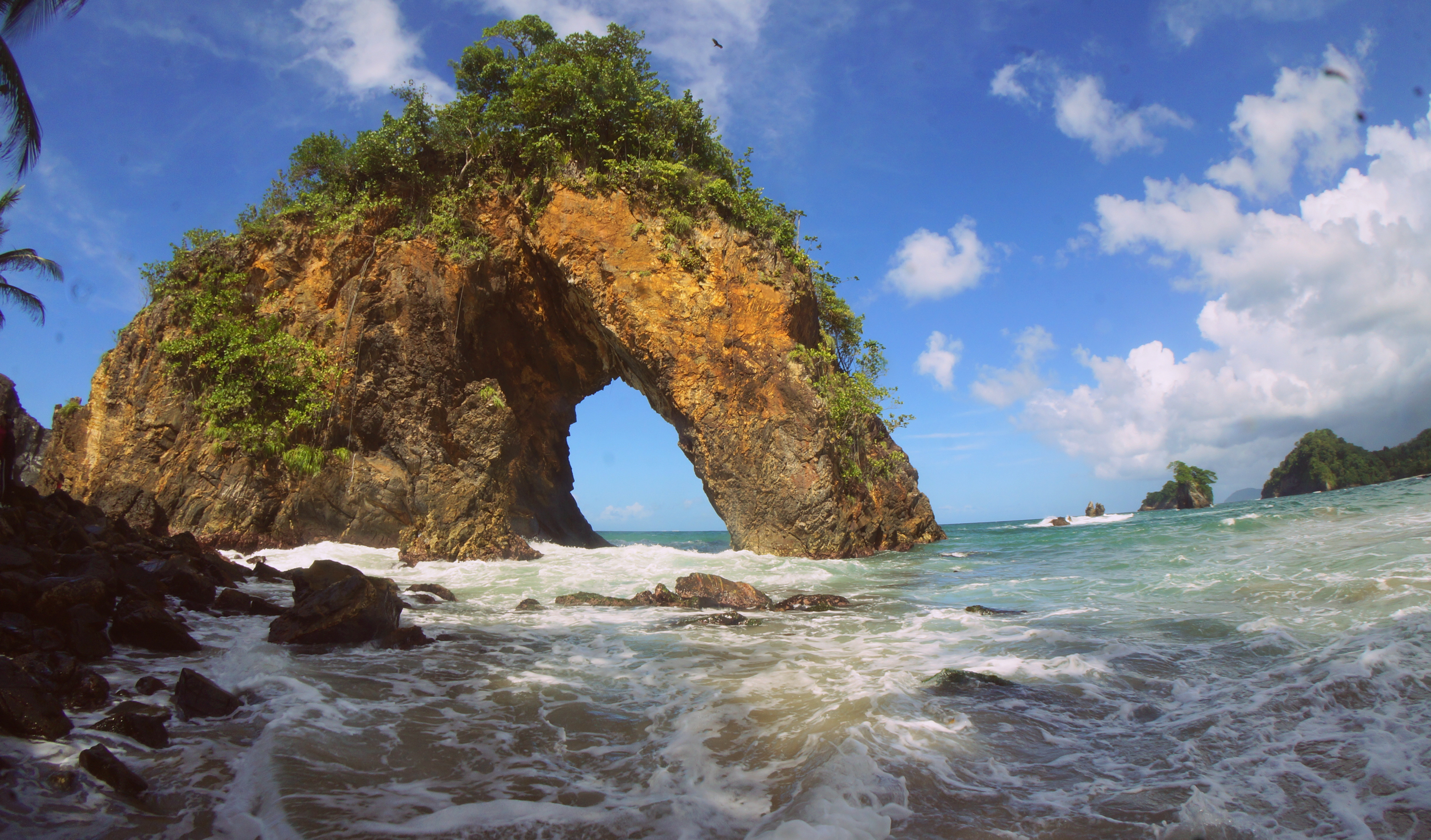 Paria Arch, also known at the Cathedral Rock. More freely usable pictures of the Beaches of Trinidad.